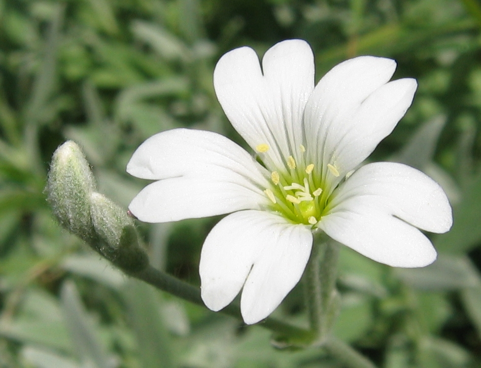 Close-up of flower. Photo by Heron2.